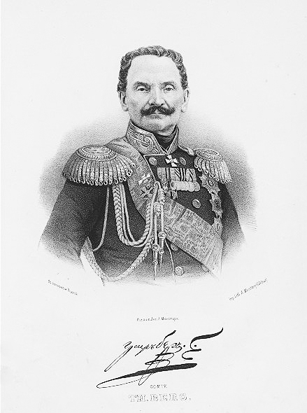 Field Marshal Frederik Vilhelm Rembert von Berg